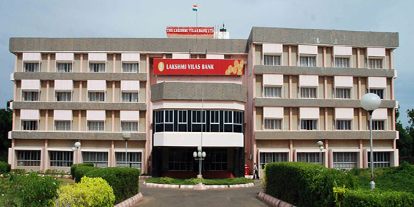 Head office